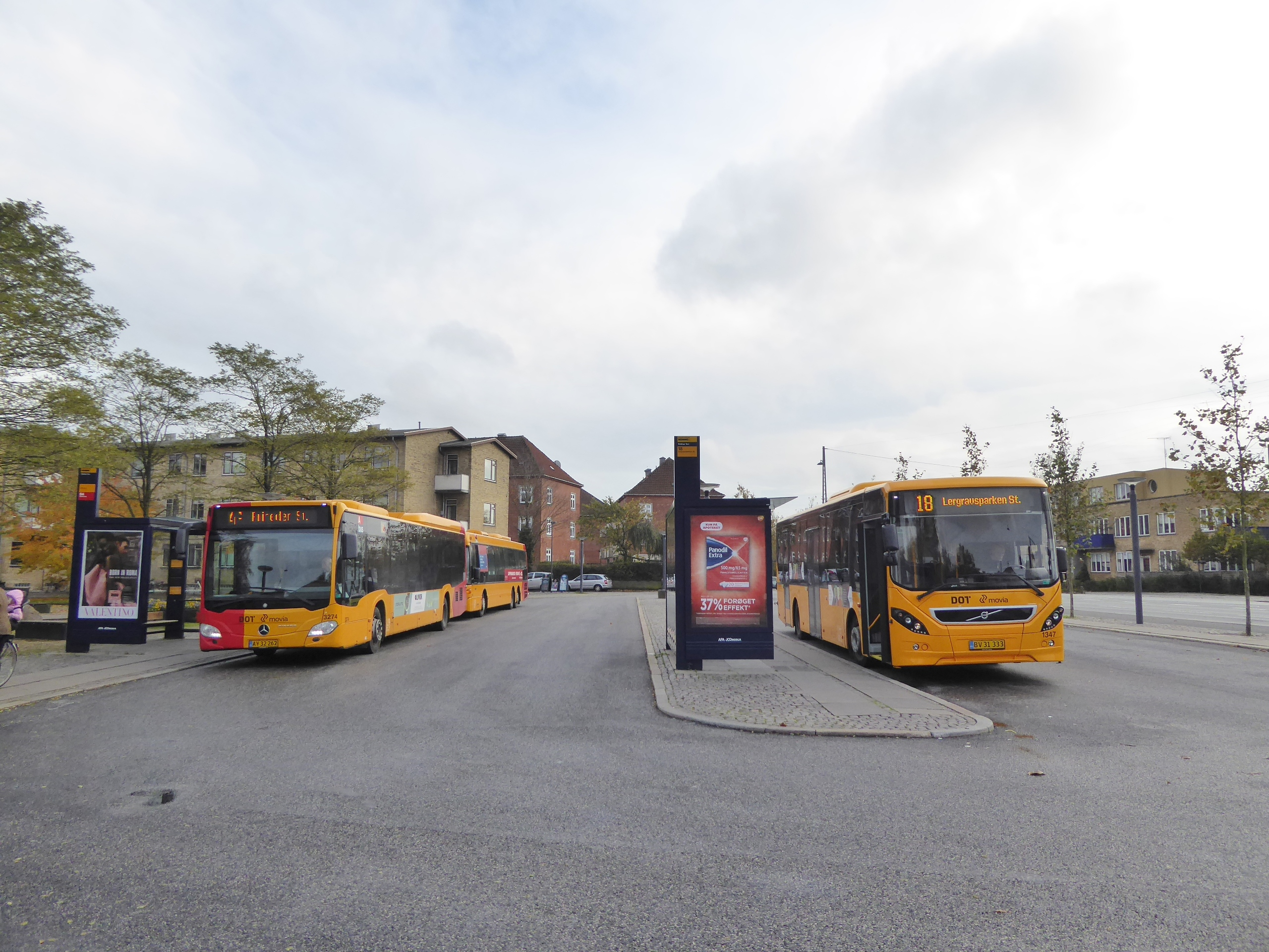 Movia bus line 4A and 18 at Emdrup Torv in Emdrup in Copenhagen.